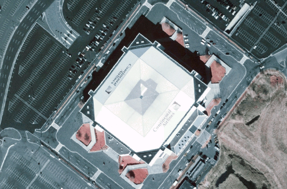 Continental airlines center satellite view, nasa world wind 1.3.5